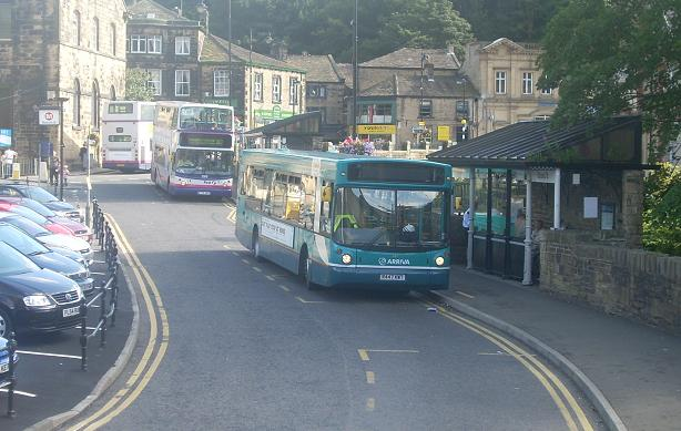 Holmfirth bus station - August 2009